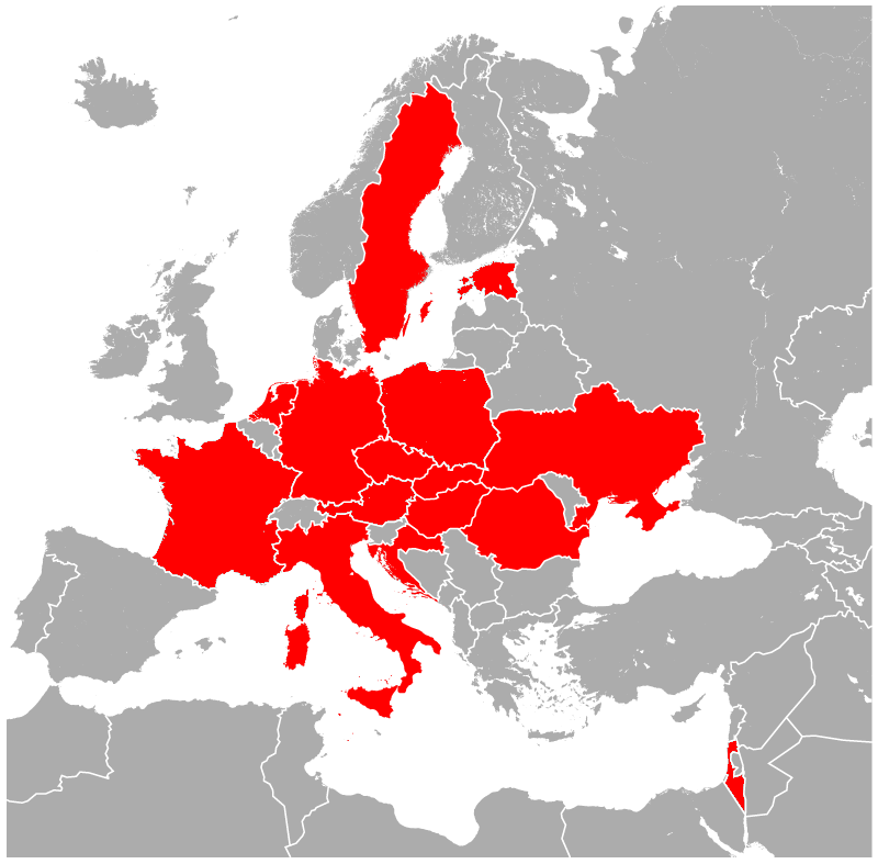 Polygons of European countries where the marbled crayfish (Marmorkrebs, Procambarus fallax forma virginalis) has been found in the wild. The map was created using the Generic Mapping Tools, GMT, version 5.4.2.